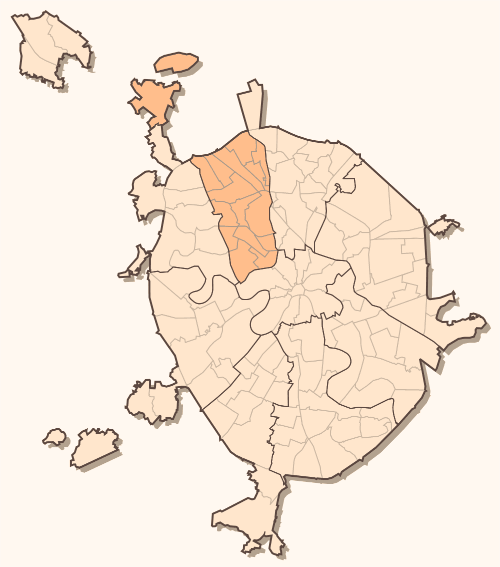 Moscow districts map